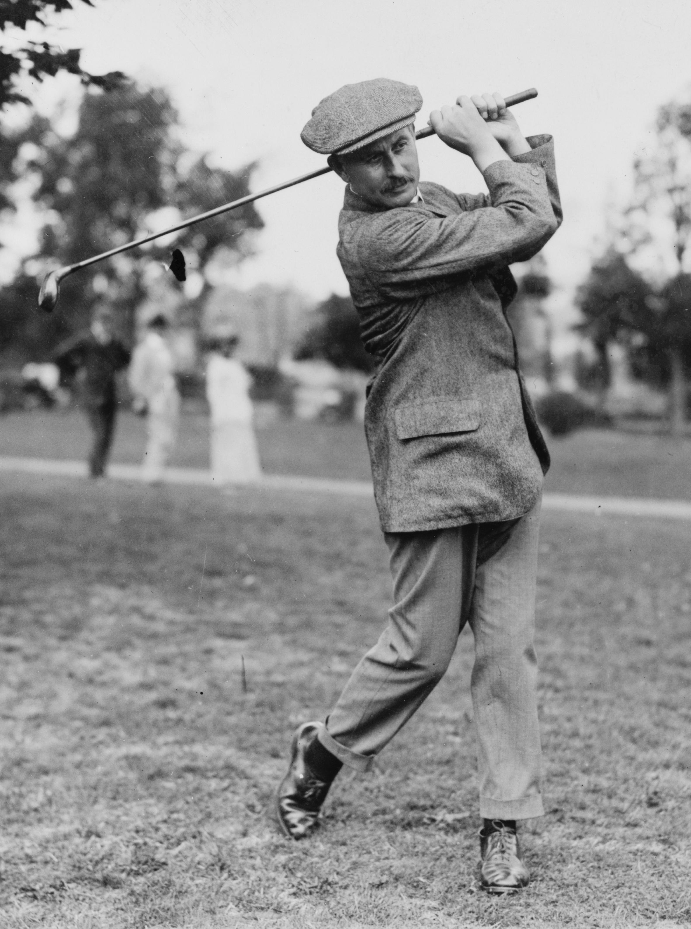 Harry Vardon, the golfing great from Jersey who won six Open Championships between 1896 and 1914. Vardon also won the 1900 U.S. Open, and popularized the Vardon Grip, used by most golfers today. The Vardon Trophy is named for him. The original caption read "Mr. Vardon swinging golf club."